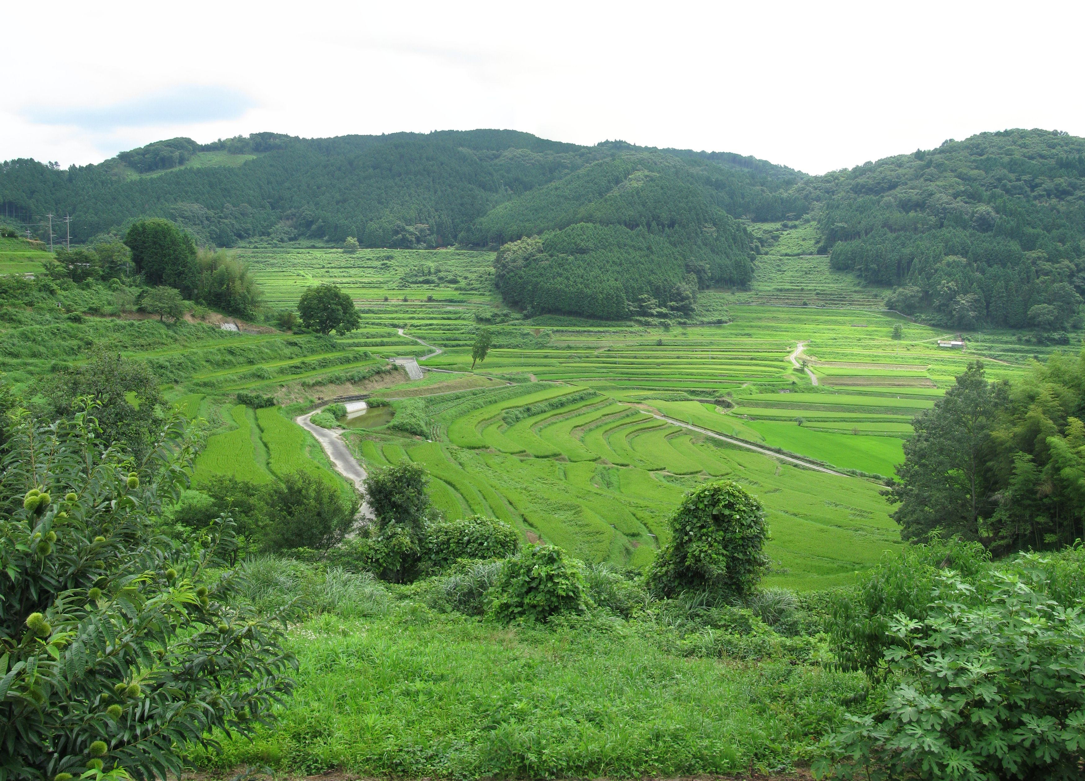 The Rice Terrace. This place is Ōhaga-nishi in Misaki, Kume District, Okayama, Japan.